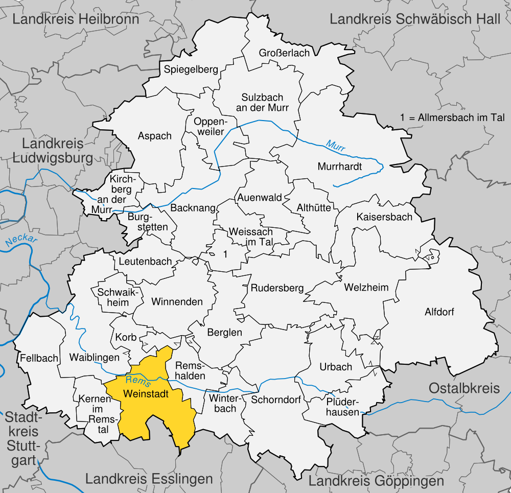 position of Weinstadt within the Rems-Murr-Kreis, Baden-Württemberg, Germany